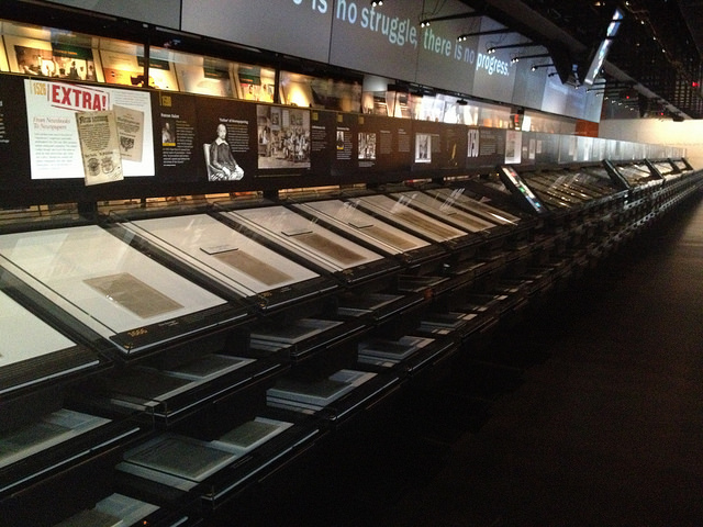 Exhibit of historic newspaper at the Newseum in Washington, D.C.